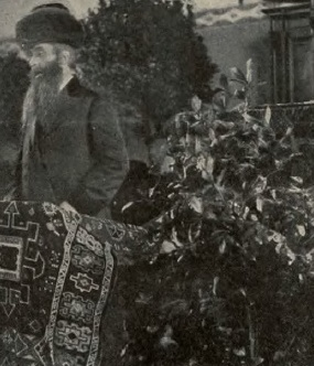 Josef Nechemia Kornitzer rabbi from Krakow